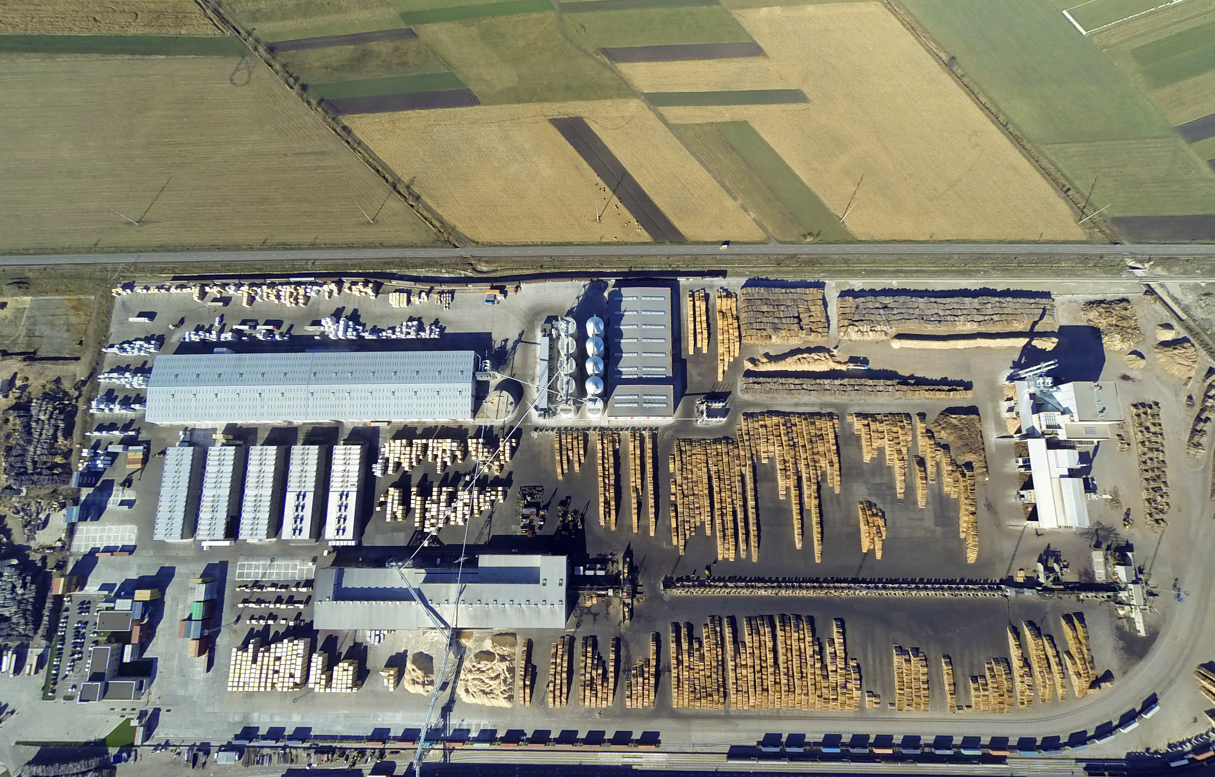 Aerial photo of the Schweighofer sawmill in Rădăuți, Romania.